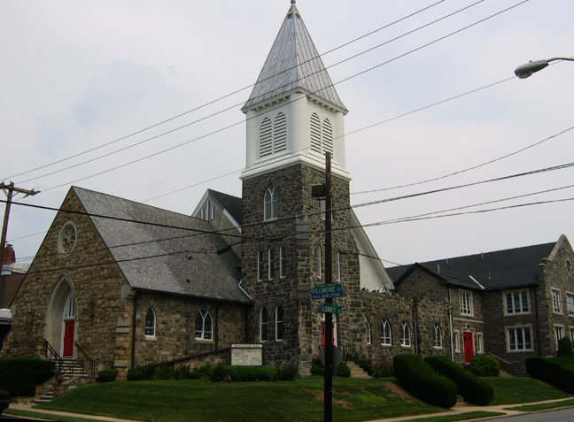 Fox Chase United Methodist Church Loney & Fillmore Streets, Fox Chase, Philadelphia, Pennsylvania